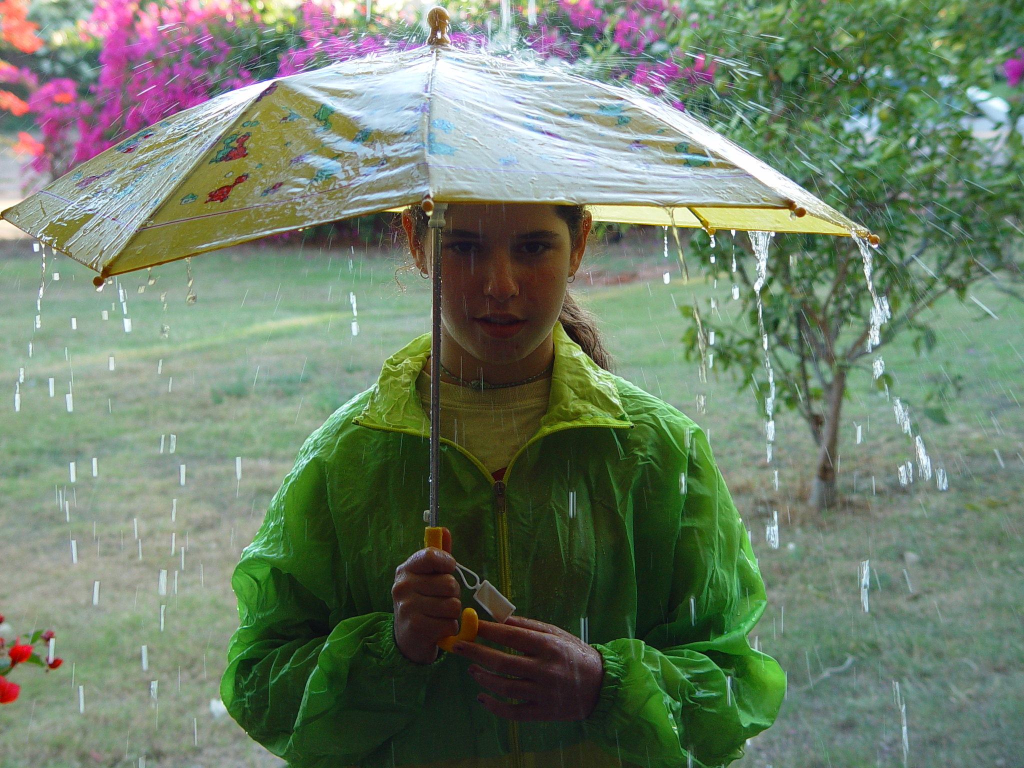 Maayan holds her umbrella (Israel, 2002)